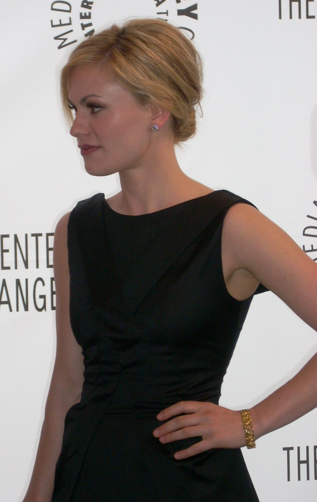 Actress Anna Paquin - "True Blood" 25th Annual Paley Television Festival - ArcLight Cinemas, Los Angeles.